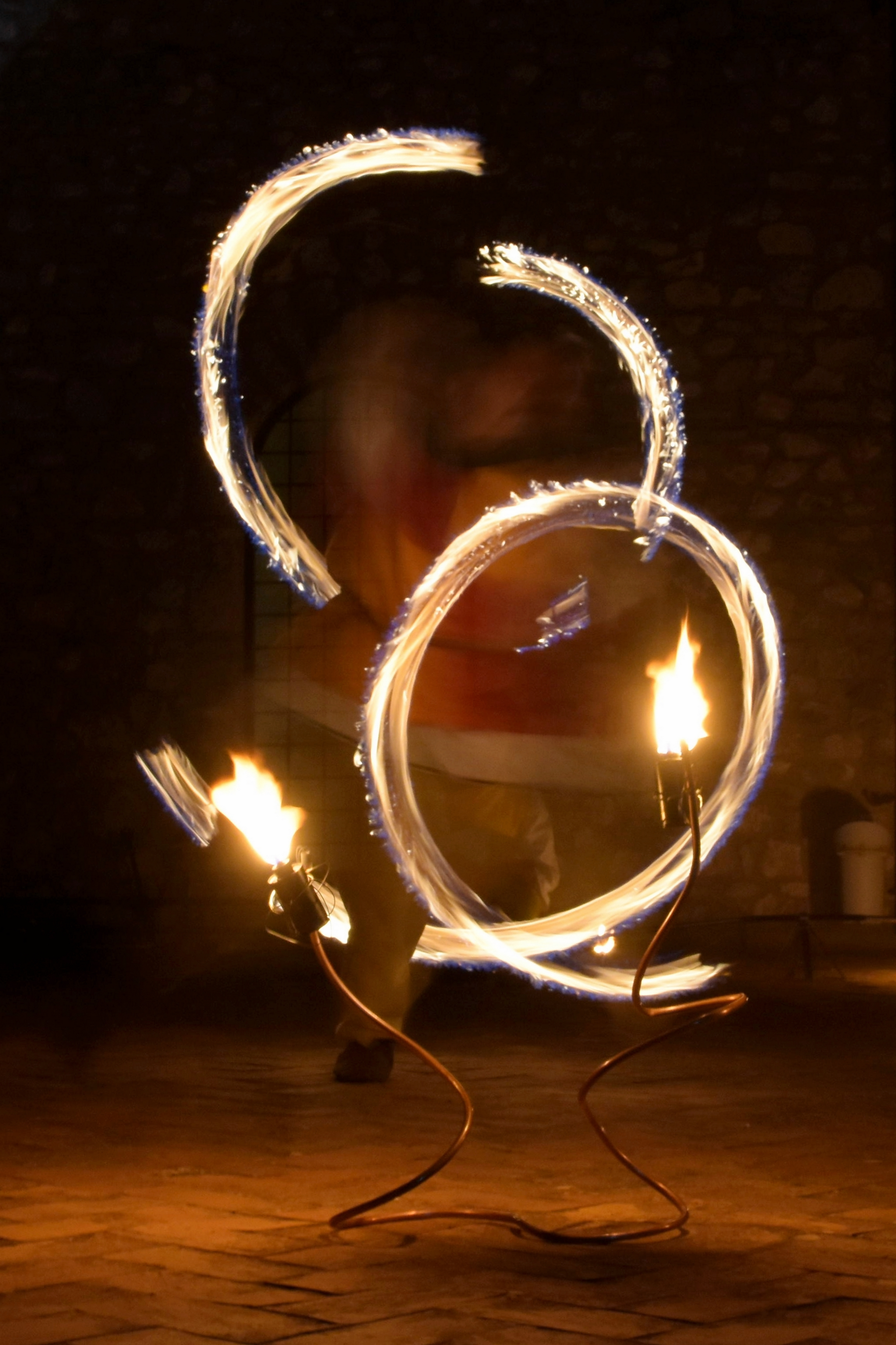 Fire Dancing performer, Medieval Festival of Itri (Italy)